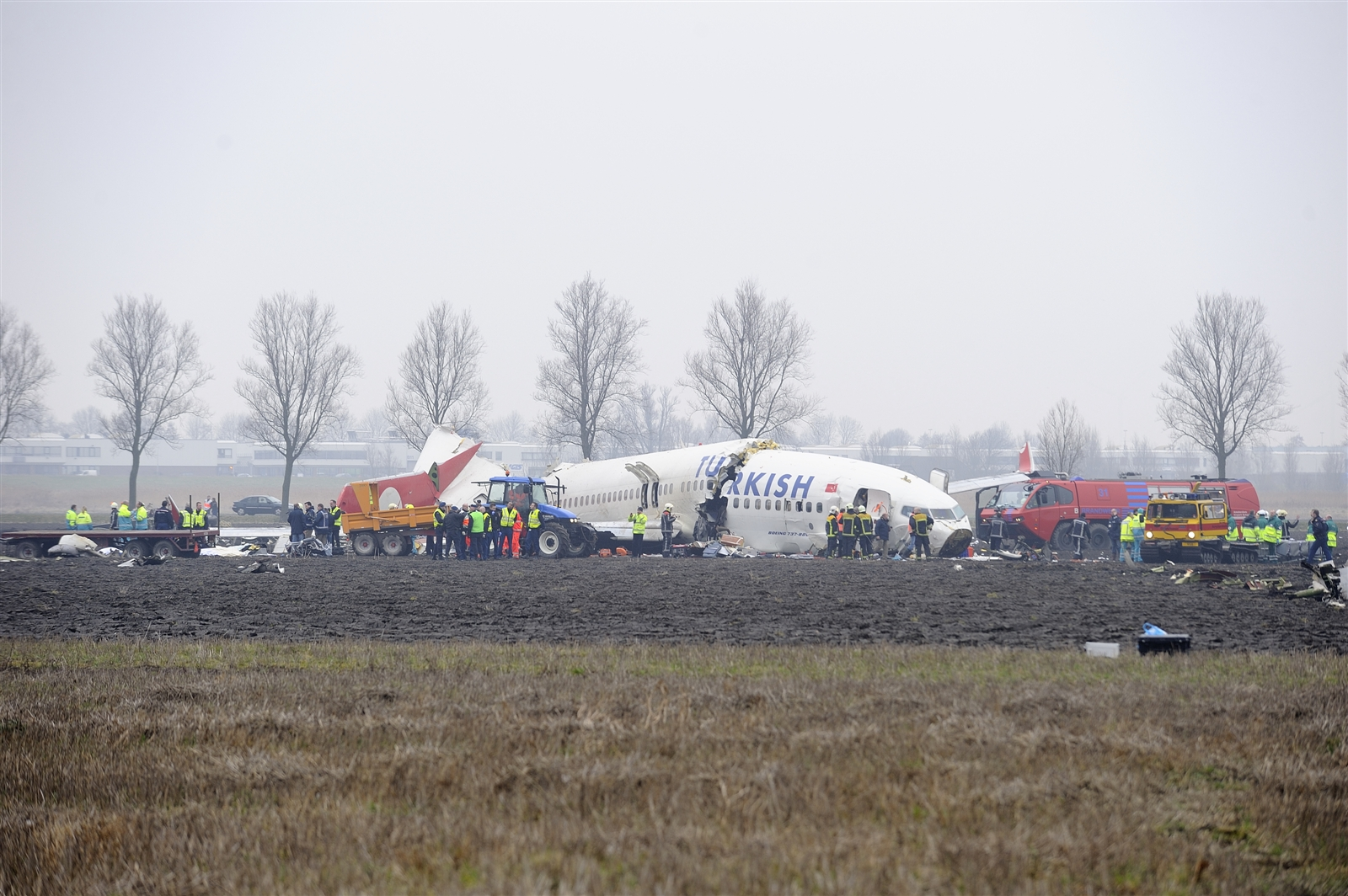 Crash site of Turkish Airlines Flight 1951, Boeing 737-8F2 (TC-JGE, "Tekirdağ"), at Schiphol Airport, near Amsterdam, The Netherlands. 25 February 2009; Copyright Fred Vloo / RNW